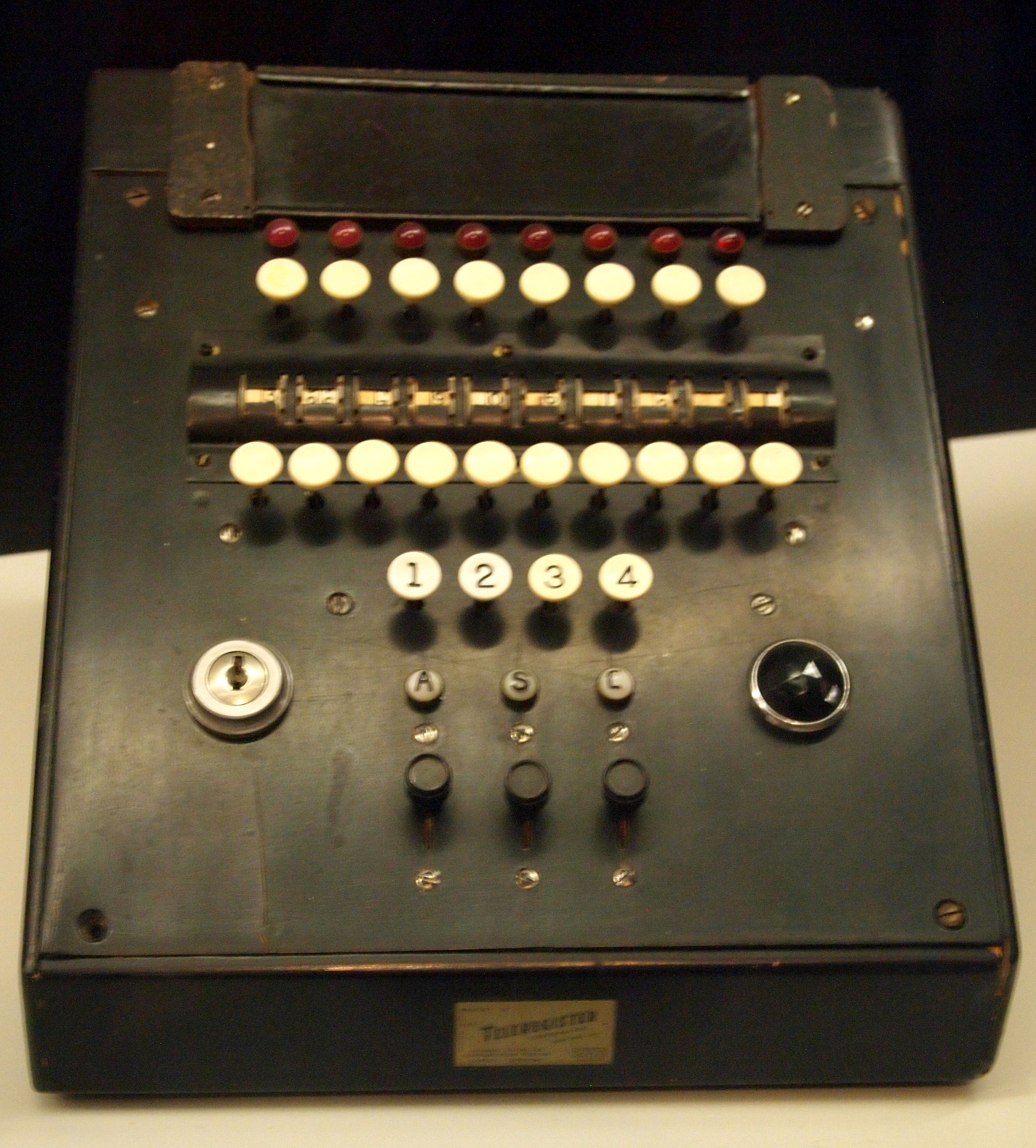 Magnetronic Reservisor on display at the American Airlines C.R. Smith Museum. Description provided by the museum: The Magnetronic Reservisor, introduced in 1952, was the first electronic reservations system in the airline industry.